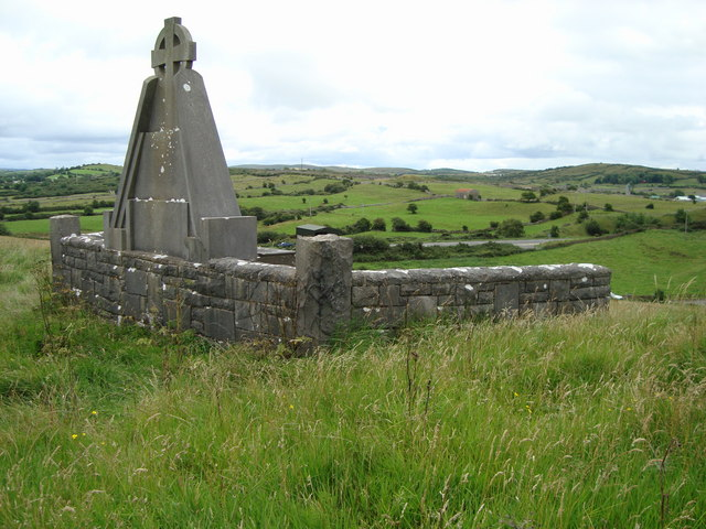 Cillin on Raneeny Hill Erected in 1959 to mark the grave of St. Asicus (Asagh)c490: disciple of St. Patrick and renowned coppersmith and bellfounder. This is the site of an ancient graveyard, known in the distant past as Rath Cunga, later as Racoon, now as Raneeny Hill.